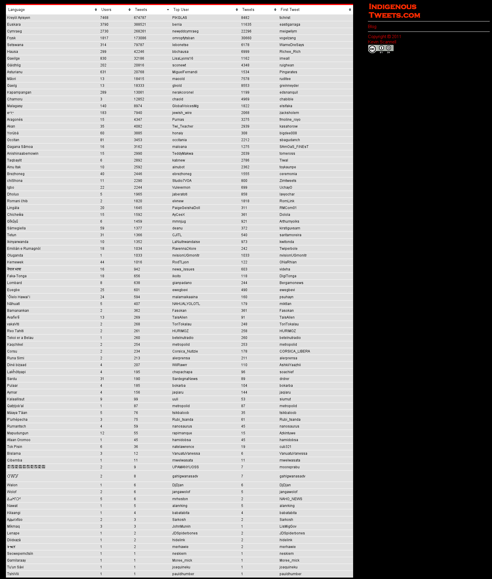 Screenshot of the webpage "Indigenous Tweets"